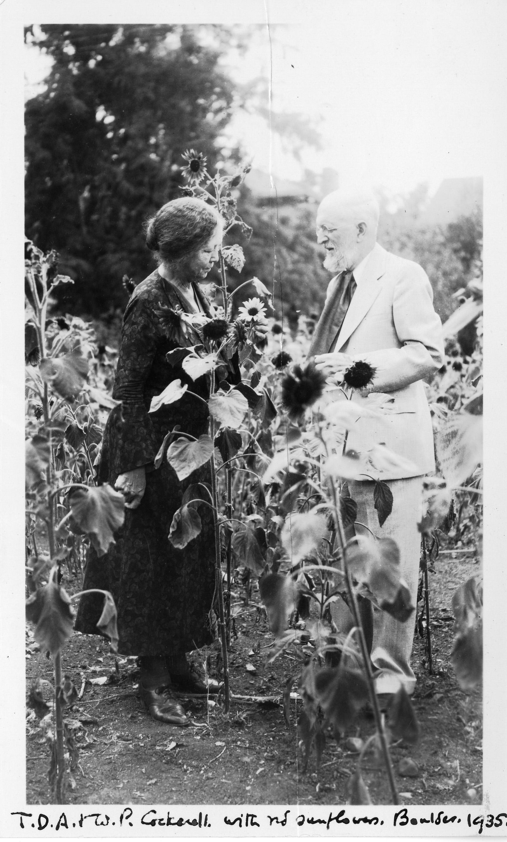 Description: In this 1935 photograph, botanist Wilmatte Porter Cockerell (1871-1957) is shown with biologist Theodore Dru Alison Cockerell (1866-1948), whom she married in 1900. In 1901, he named the ultramarine blue chromodorid Mexichromis porterae in her honor. Before and after their marriage in 1900, they frequently went on collecting expeditions together and assembled a large private library of natural history films, which they showed to schoolchildren and public audiences to promote the cause of environmental conservation. Creator/Photographer: Unidentified photographer Medium: Black and white photographic print Date: 1935 Persistent URL: [1] Repository: Smithsonian Institution Archives Collection: Science Service Records, 1902-1965 (Record Unit 7091) - Science Service, now the Society for Science & the Public, was a news organization founded in 1921 to promote the dissemination of scientific and technical information. Although initially intended as a news service, Science Service produced an extensive array of news features, radio programs, motion pictures, phonograph records, and demonstration kits and it also engaged in various educational, translation, and research activities. Accession number: SIA2008-1019